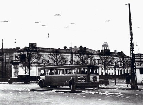 German bombers drop propaganda leaflets over Copenhagen